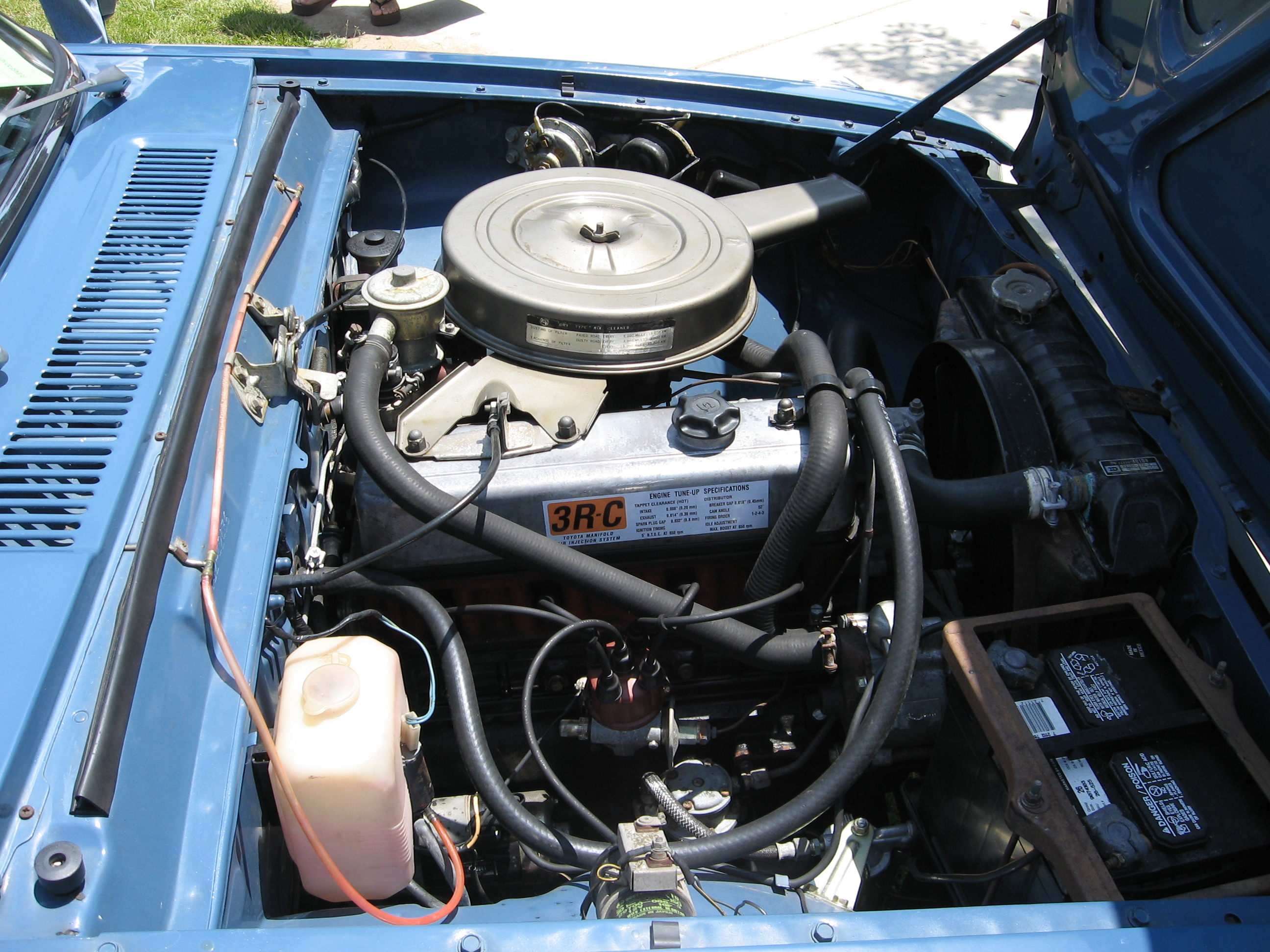 Toyota 3R-C engine. Taken at Toyota Fest 2007 in Long Beach, California.